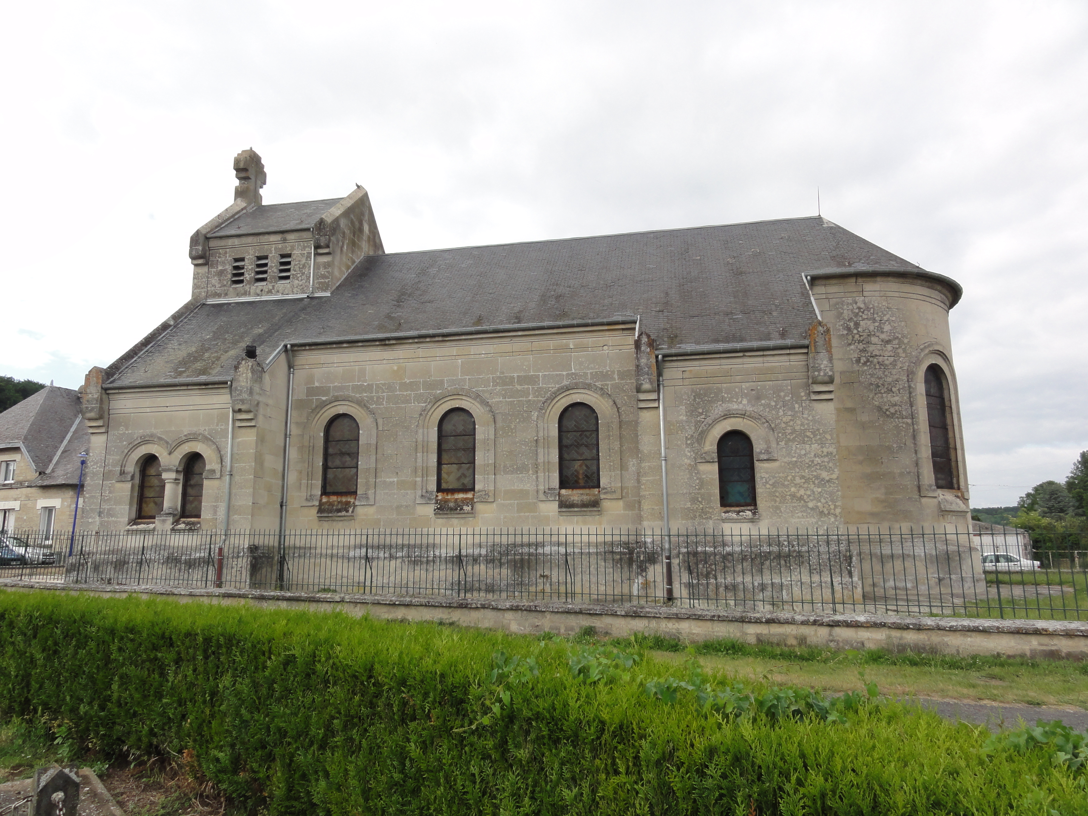 Landricourt (Aisne) église Saint-Martin